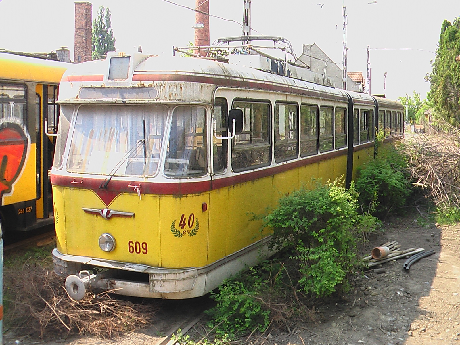 "Bengáli" tram in Szeged, Hungary. Car 609 was built in 1962 by Ganz.